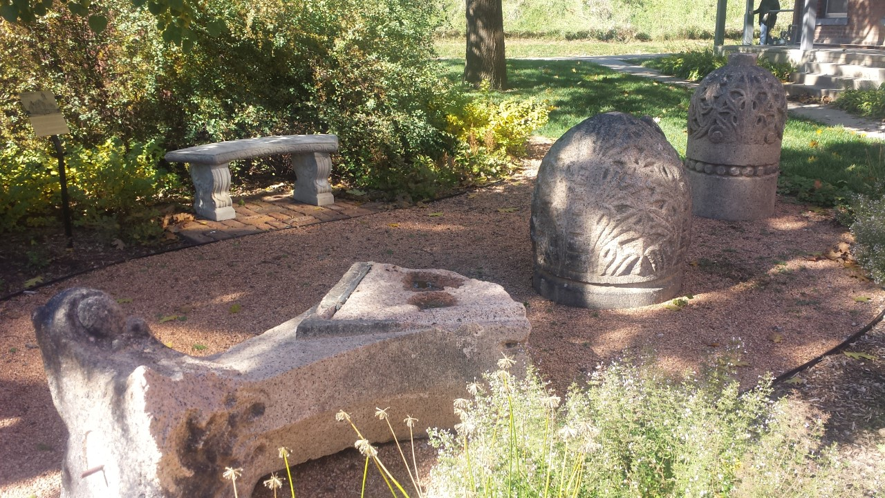 Granite architectural elements salvaged from the Old Post Office (Omaha). Ethel C. Flannigan Memorial Architectural Garden. General Crook House, Douglas County Historical Society.